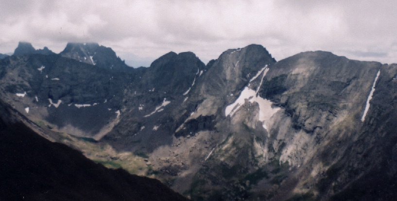 This is a shot of Kit Carson Mountain from nearby Mount Adams. The ice patch is semi-permanent and rarely melts out completely even in the dryest years such as during the drought of 2002. Taken by Mike Downey in 2004.